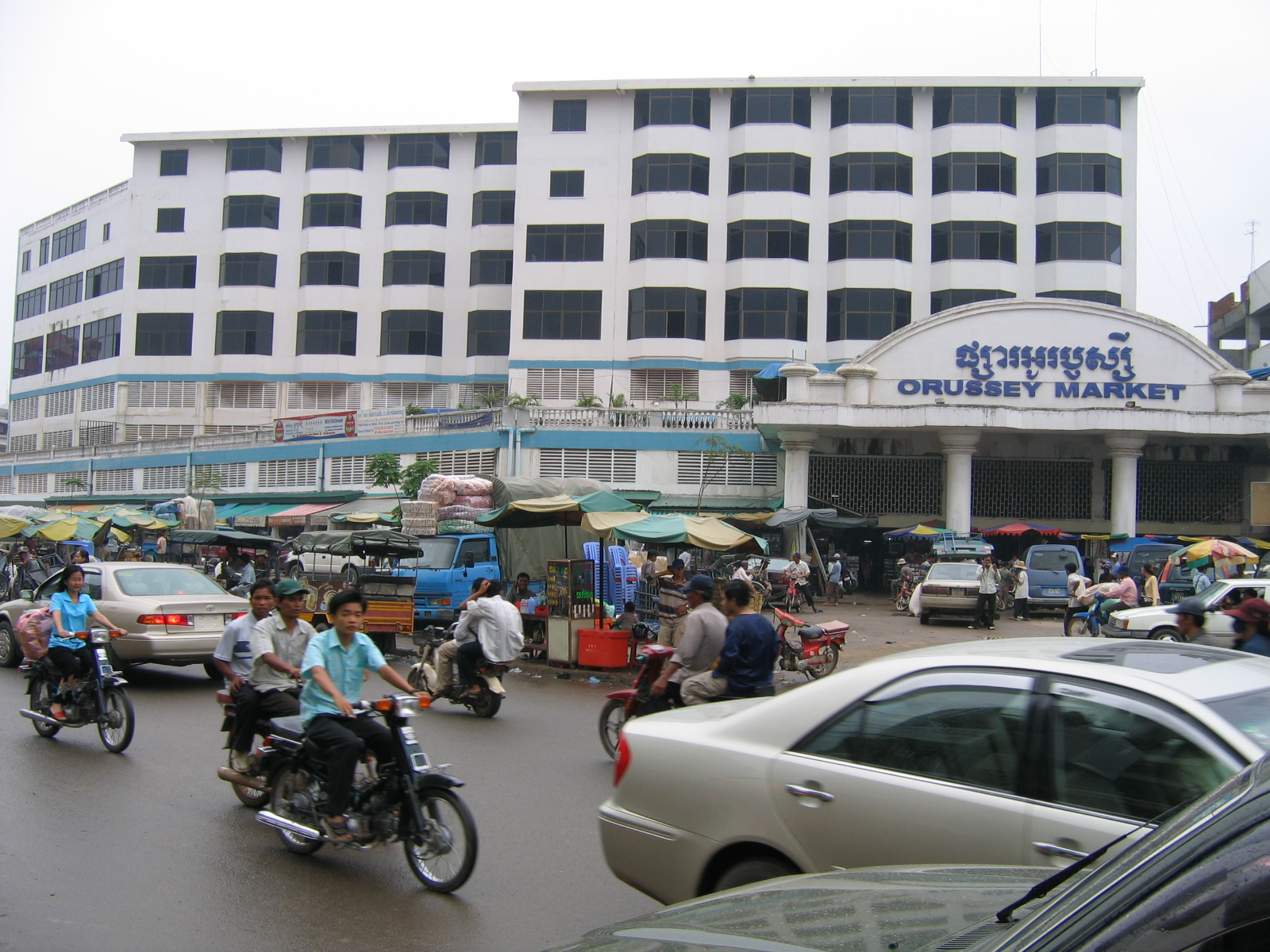 Market main entry